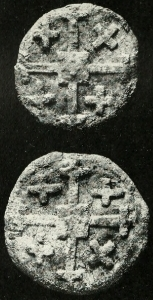 Original caption: "East Syrian (Nestorian) loaves"